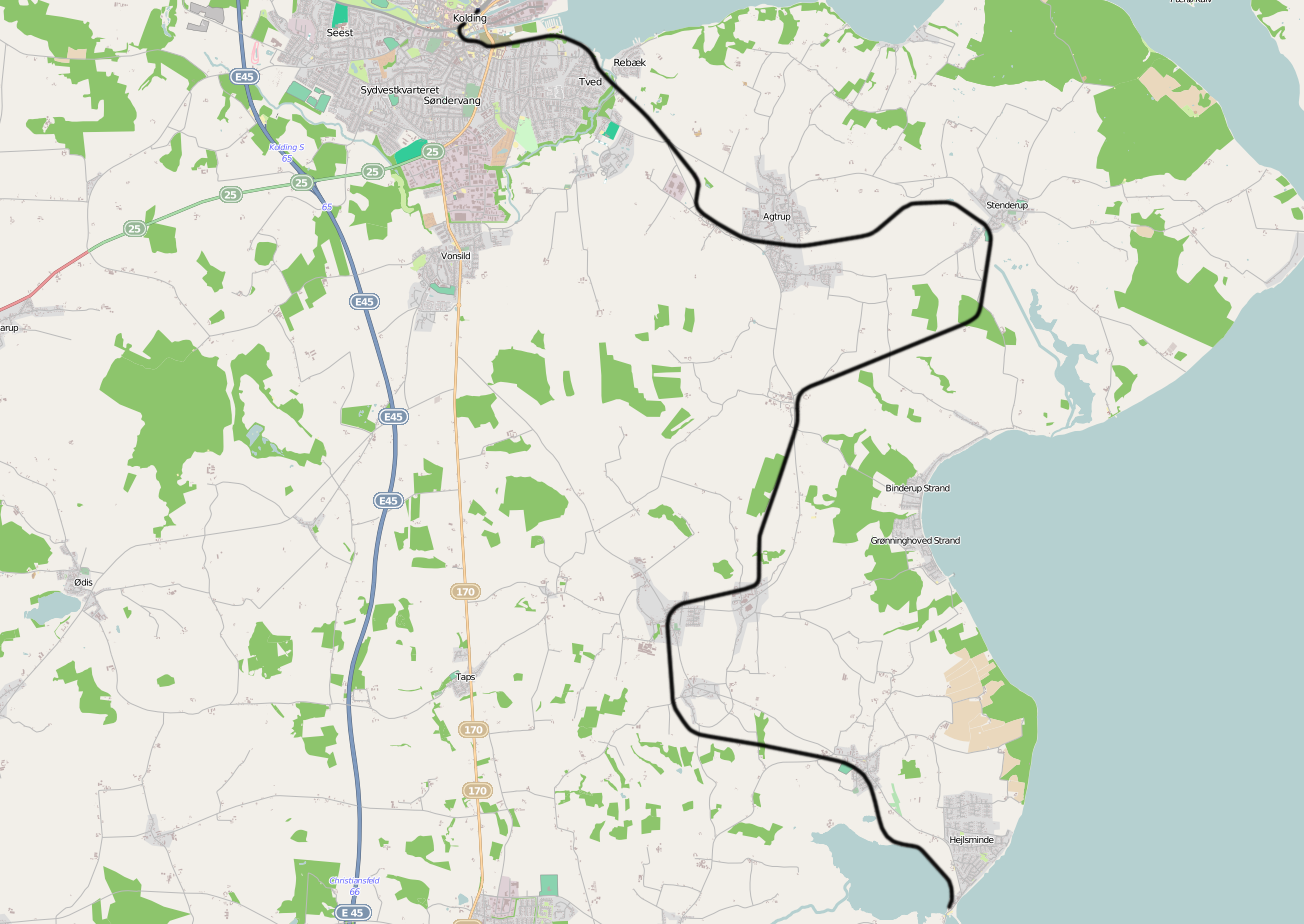 Railway line Kolding - Hejlsminde